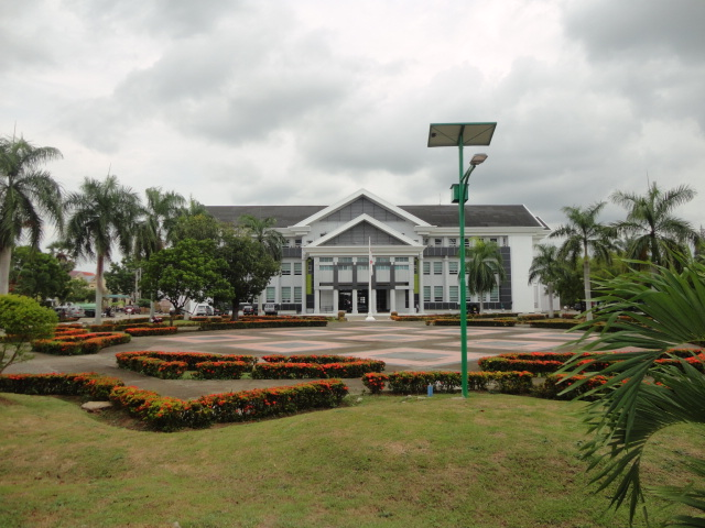 Rectorate building in Syiah Kuala University, Banda Aceh, Aceh